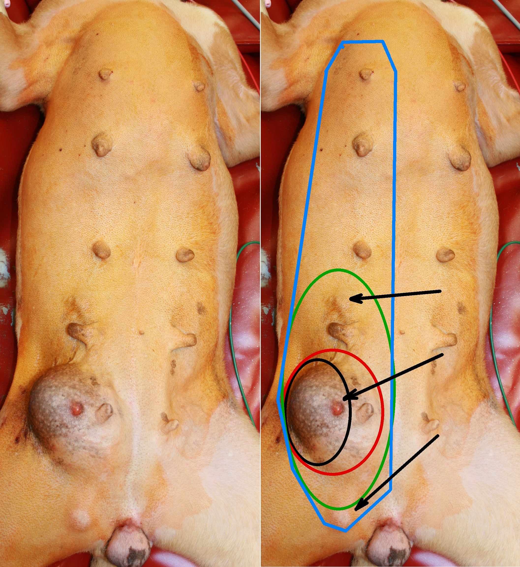 Principles of resection of mammary neoplasias in dogs. Arrows: tumors of mammary gland. Black line: nodular resection, red line: resection of one gland, green line: regional mastectomy, blue line: radical mastectomy